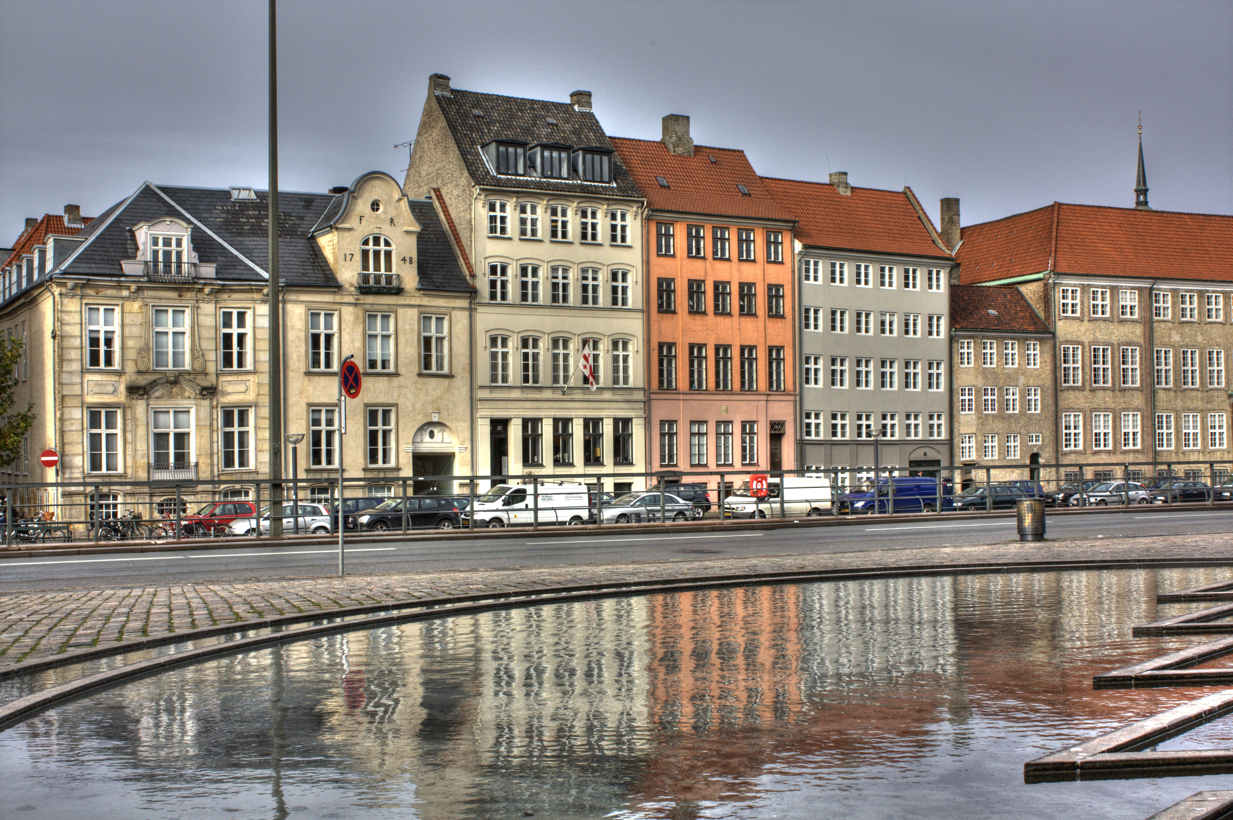 The house row at Gammel Strand seen from Thorvaldsens Plads across Slotsholmen canal in Copenhagen, Denmark